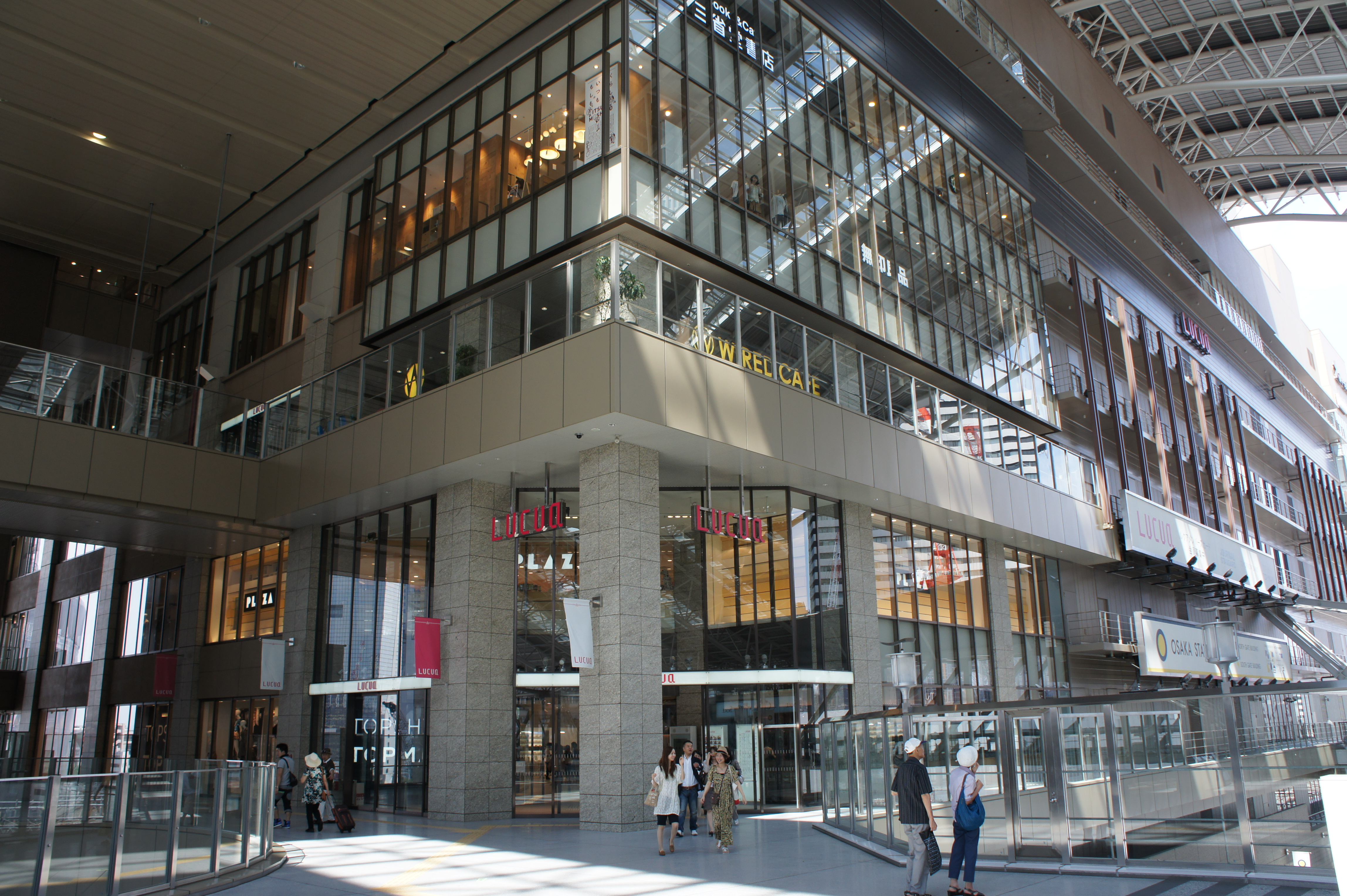 Lucua, 3-1-3 Umeda Kita-ku Osaka-City Osaka Japan.